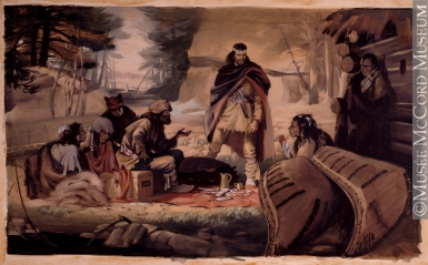 Radisson & Groseillers Established the Fur Trade in the Great North West, 1662 Archibald Bruce Stapleton 1917-1950, 20th century From the McCord Museum